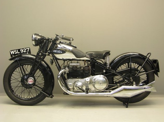 Ariel 600 cc Square Four motorcycle from 1932